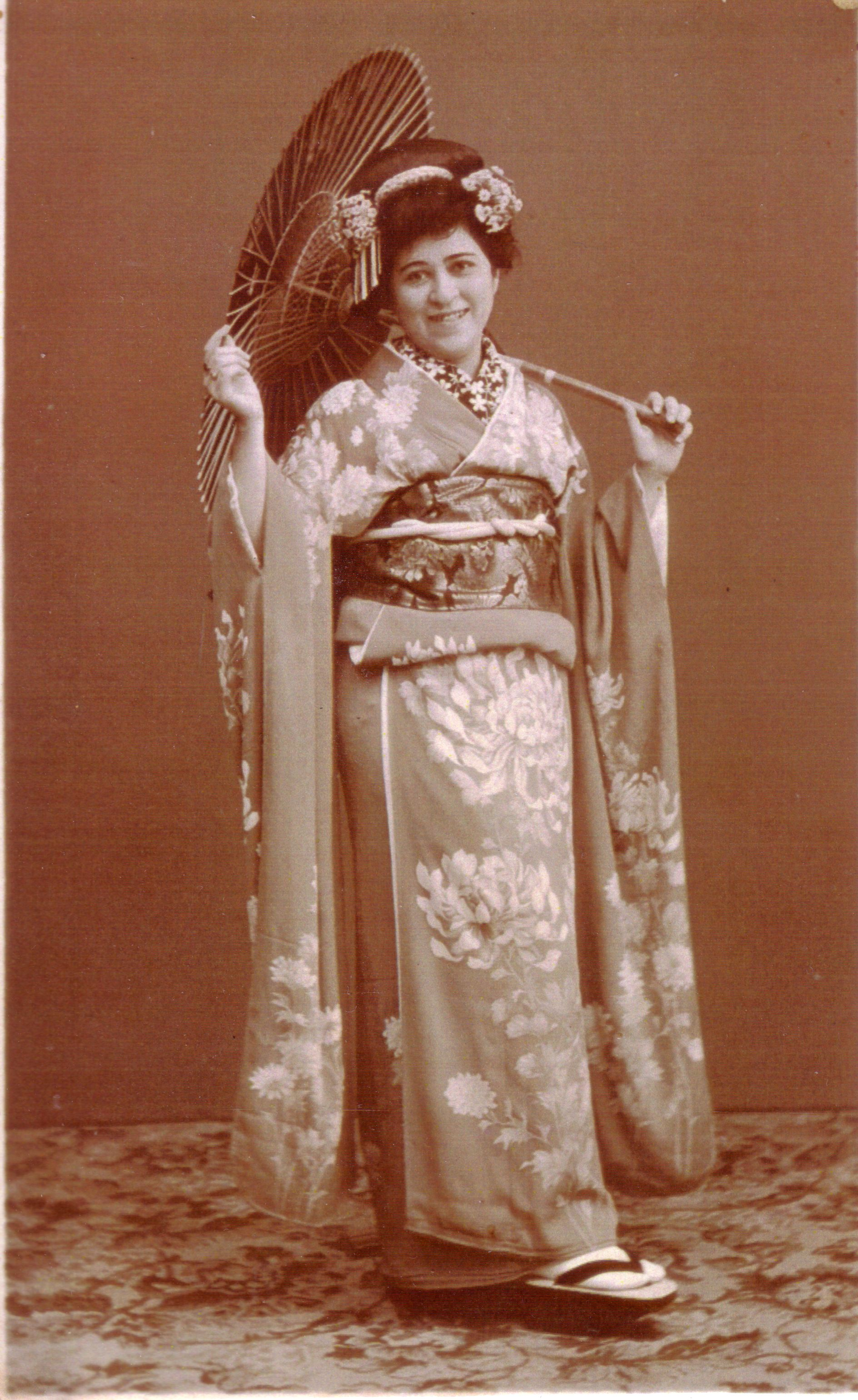 Jideko Selles Ogino de Vidal, female Spanish-Japanese writer, born (aprox. 1890) and lived in Kobe (Japan) until 18 year old and then remained in Barcelona (Spain) until his death (1971).